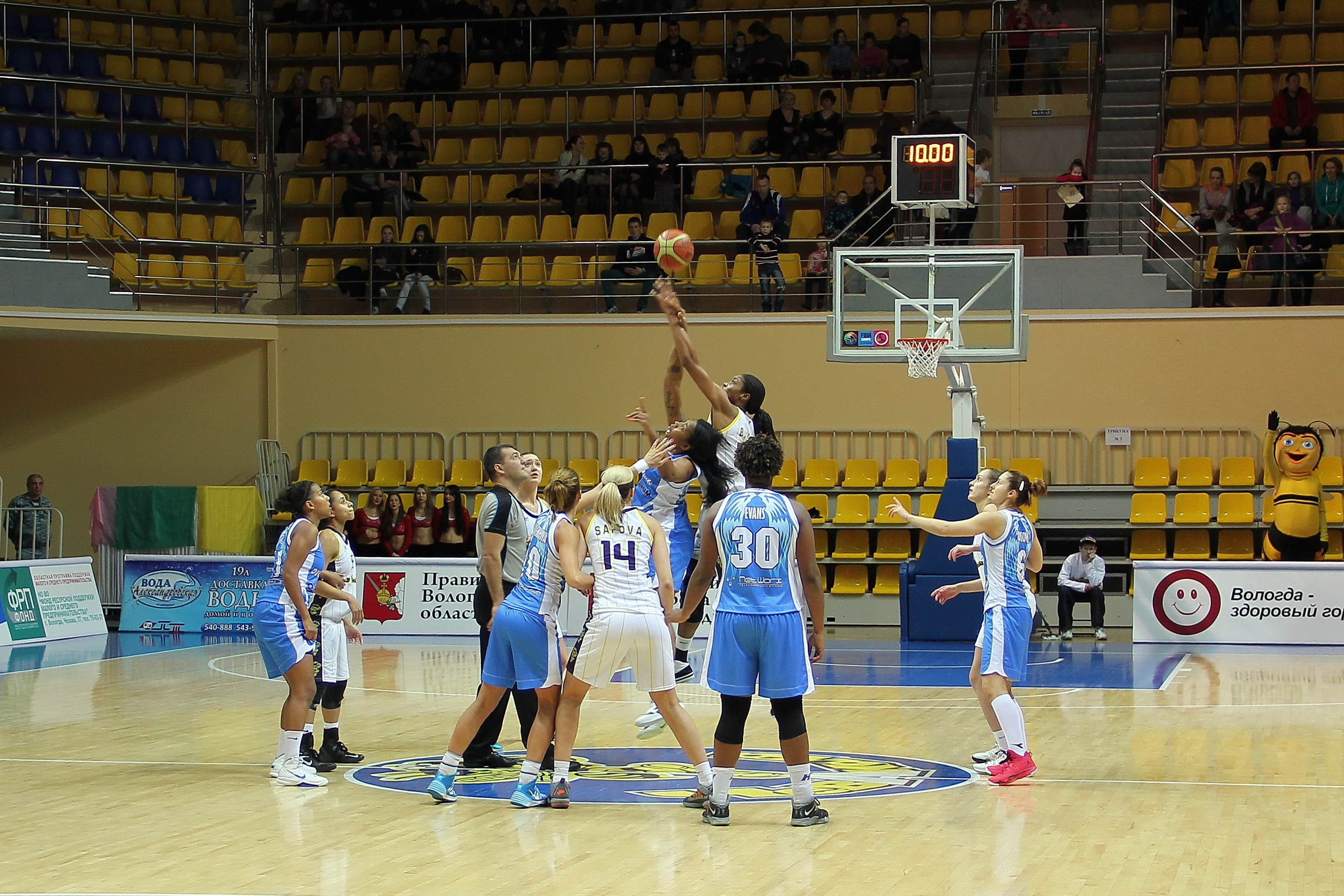 Russia, Vologda, game «Vologda-Chevakata» vs «Dunav 8806» (Ruse)